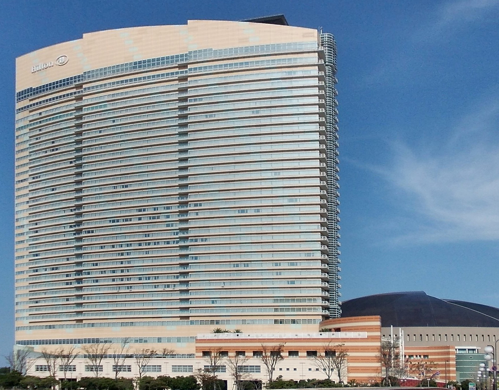 Hilton Fukuoka Seahawk (ex-JAL Resort Seahawk Hotel Fukuoka), Chuo-ku, Fukuoka, Japan. Taken on 07 October 2011.